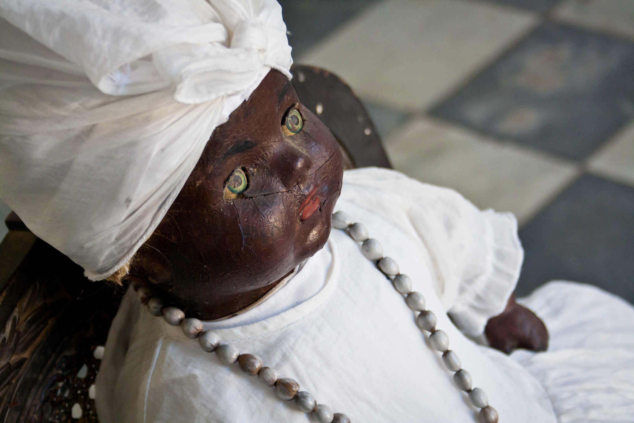 Muñeca que representa a una deidad Orisha (creo que es Obatalá) en un templo santero en Trinidad, Cuba.